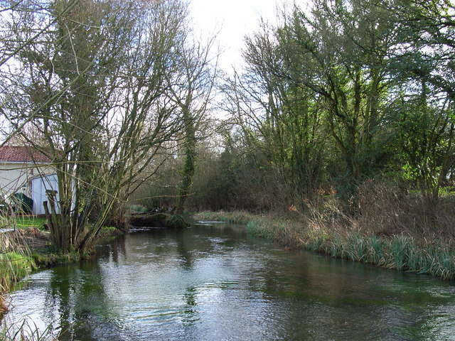 Lyde River. At Water End, where there is a mobile home park to the left of the picture.